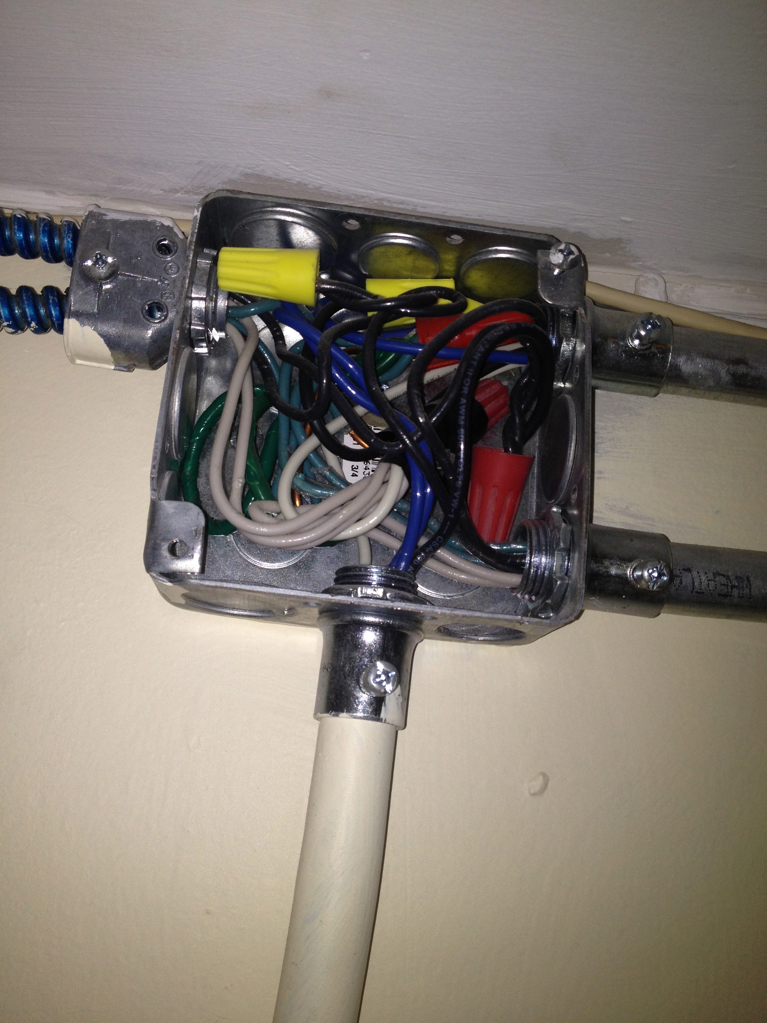 A typical US electrical junction box with twist-on wire connectors.